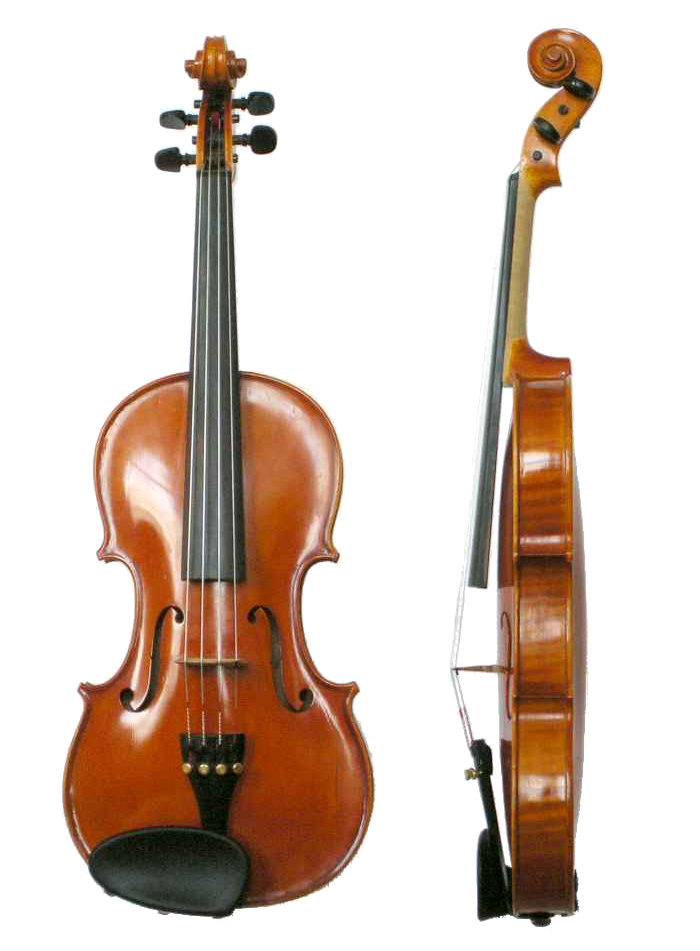 A standard modern trade violin shown from the front and the side